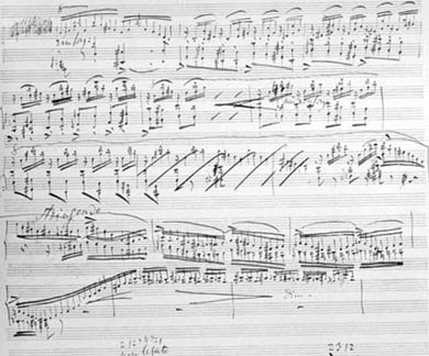 One of the pages from the original manuscript of Liszt's Piano Sonata in b minor.